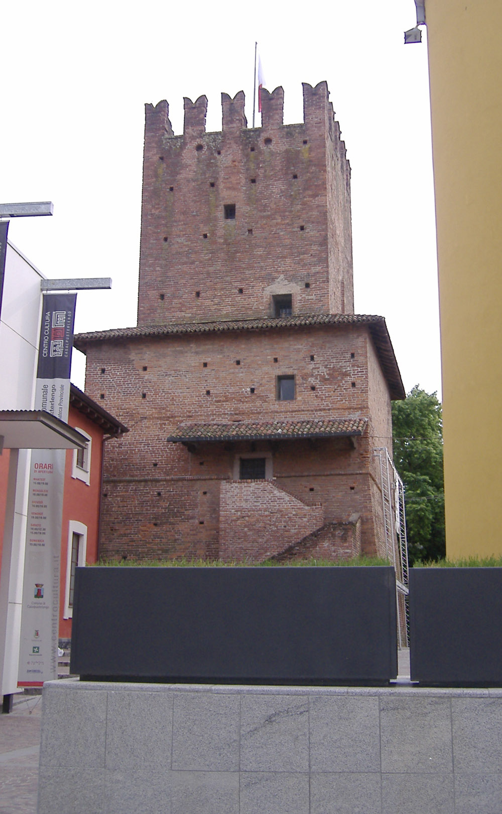 The Tower Pusterla, in Casalpusterlengo, Italy.